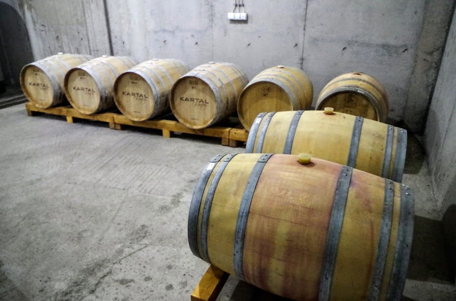 Kartal Winery in Skopje, Macedonia